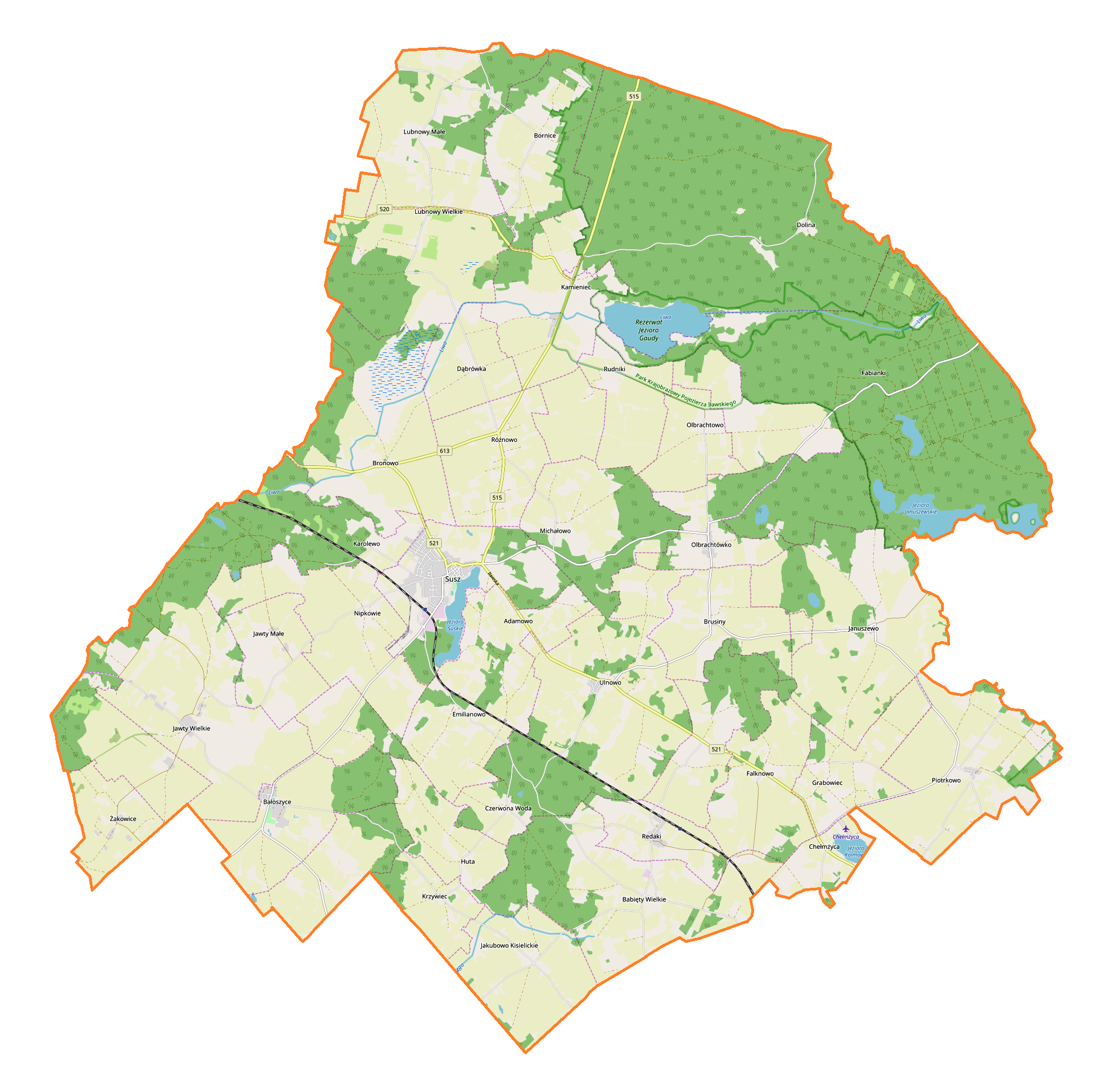 Location map